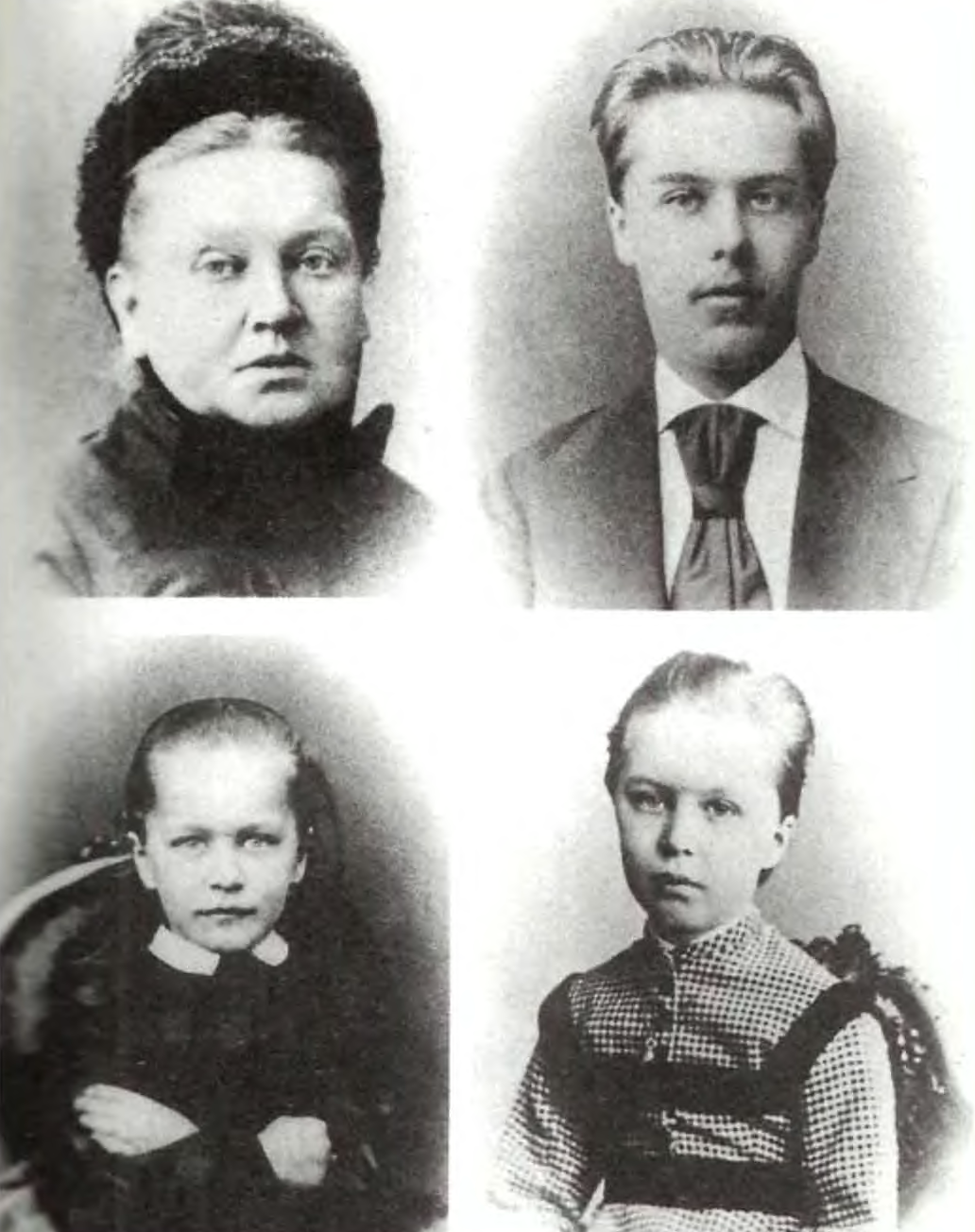 Ekaterina Petrovna Lishina (1826-1896), Sergei Schliemann (1855-1941), Natalja Schliemann (1859-1869) and Nadeschda Schliemann (1861-1935).